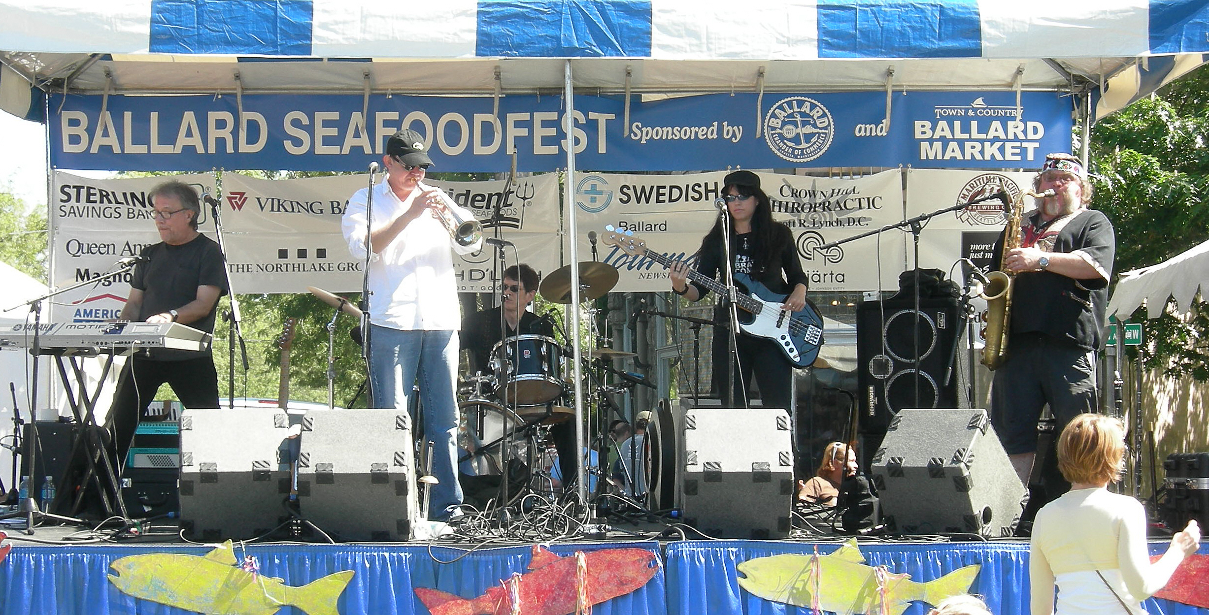 Texas band Brave Combo, playing at the Ballard Seafood Fest (in the Ballard neighborhood of Seattle, Washington). Left to right: Carl Finch - Guitar, Keyboard, Accordion, Vocals Danny O'Brien - Trumpet, Vocals Alan Emert - Drums Ann Marie Harrop - Bass Guitar, Vocals Jeffrey Barnes - Woodwinds, Saxophone, Vocals